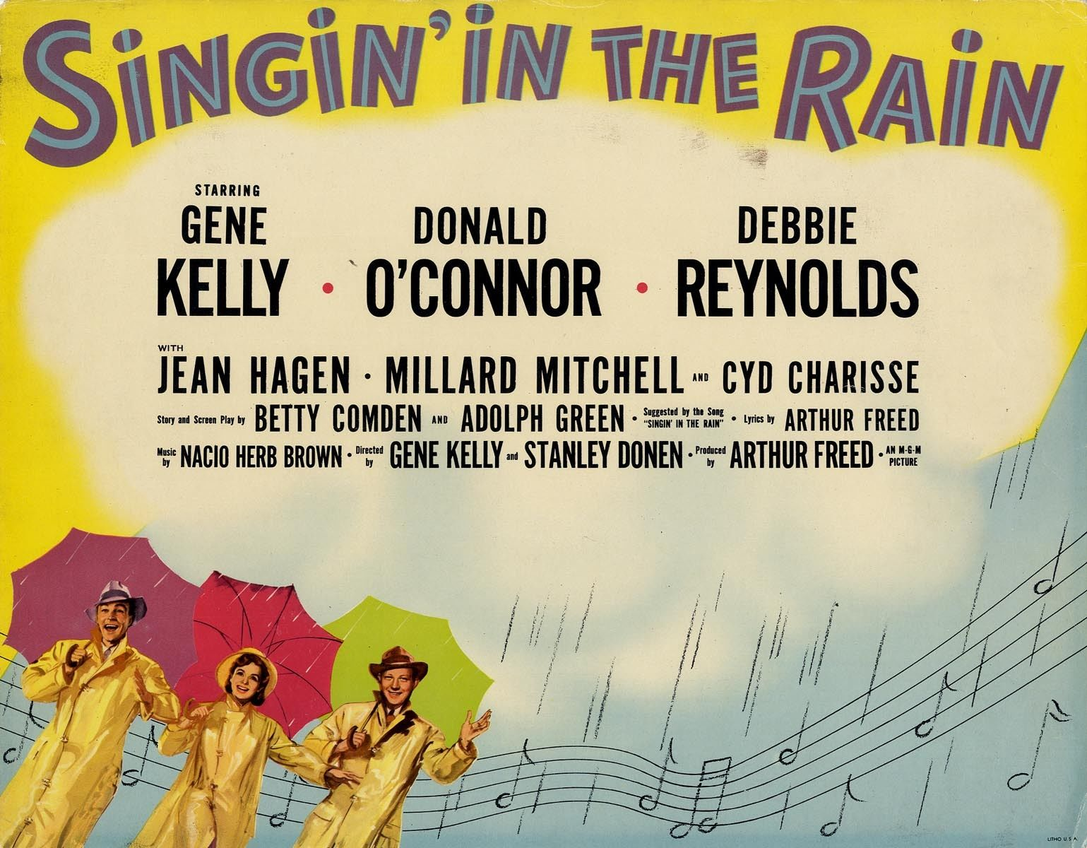 Lobby Card for Singin' In The Rain. The item has no copyright marks as can be seen in the links. At bottom right is a logo indicating the card was produced by a union print shop and Country of origin USA.